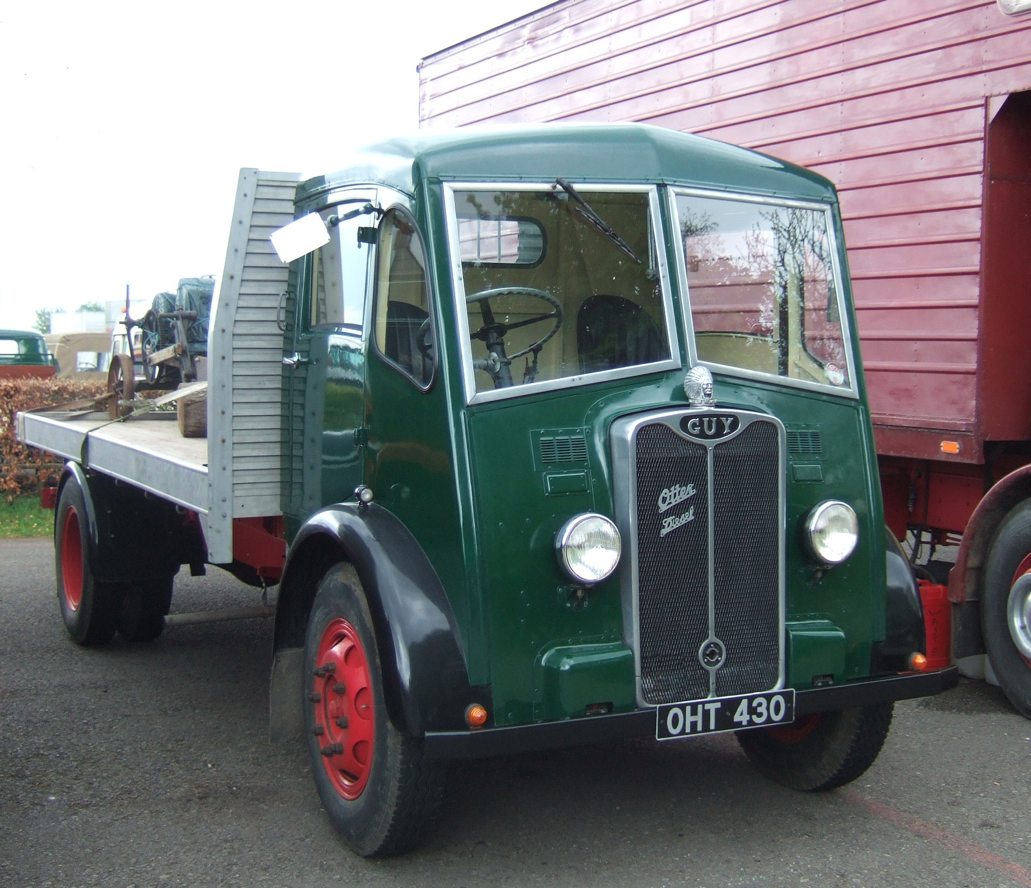 1951 Guy Otter diesel lorry Castle Combe steam rally, 2010.